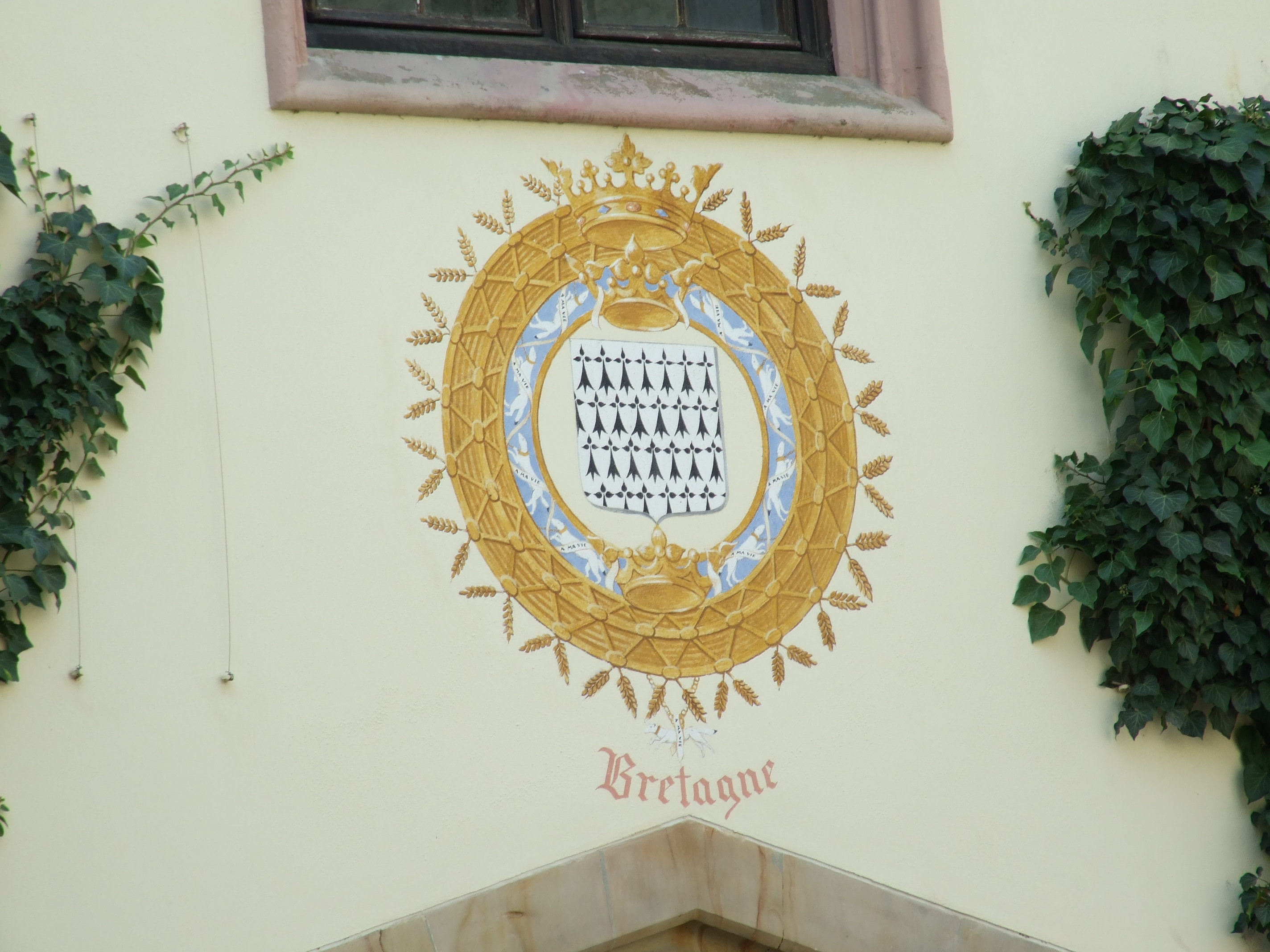 Sychrov castle